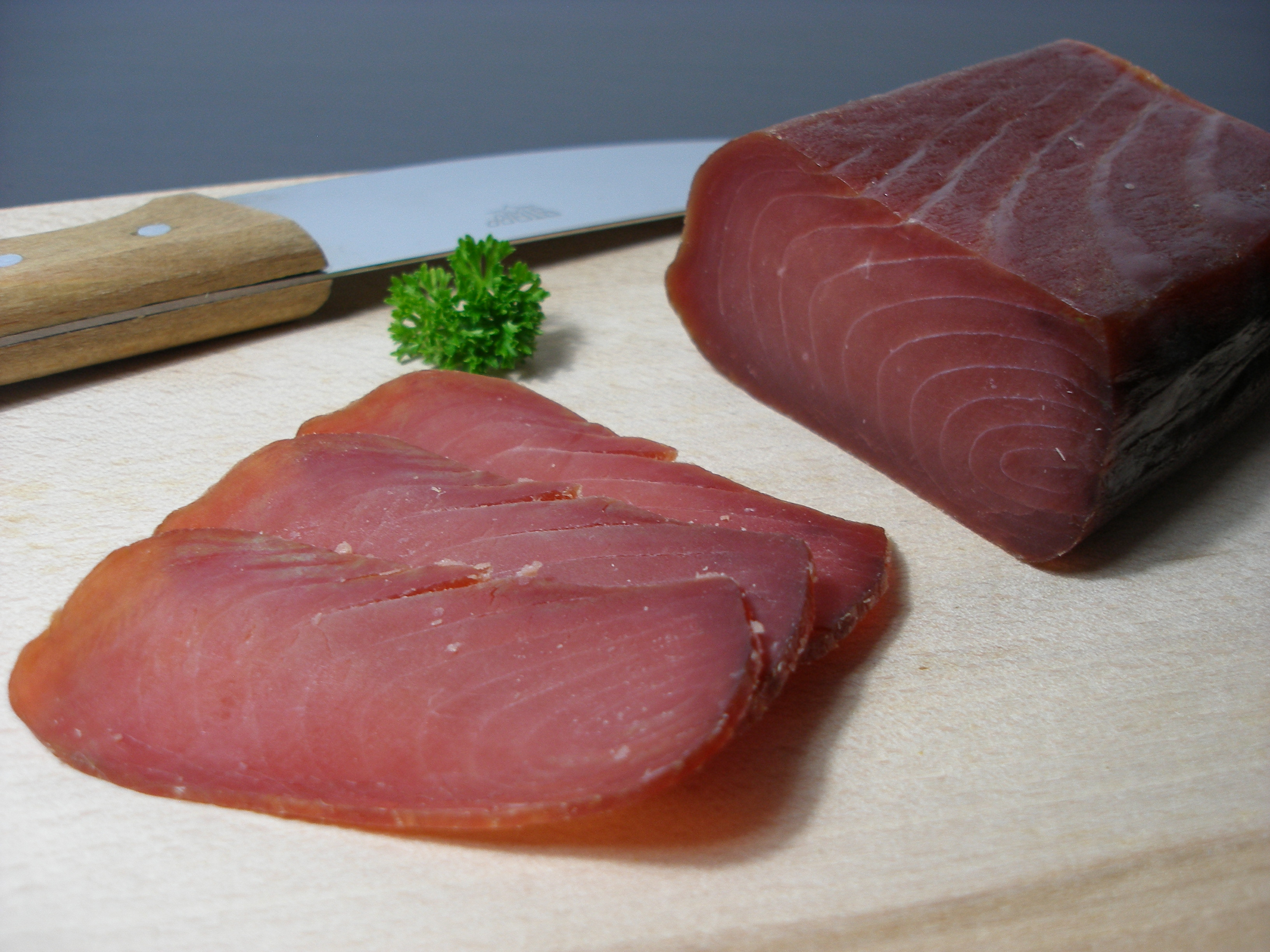 Dried tuna - tuna mojama